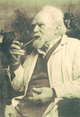 Leoš Kubíček